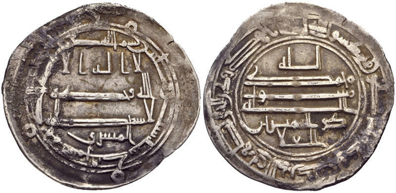 Coin of Tahir ibn Husayn, the first Emir of the Tahirid dynasty.